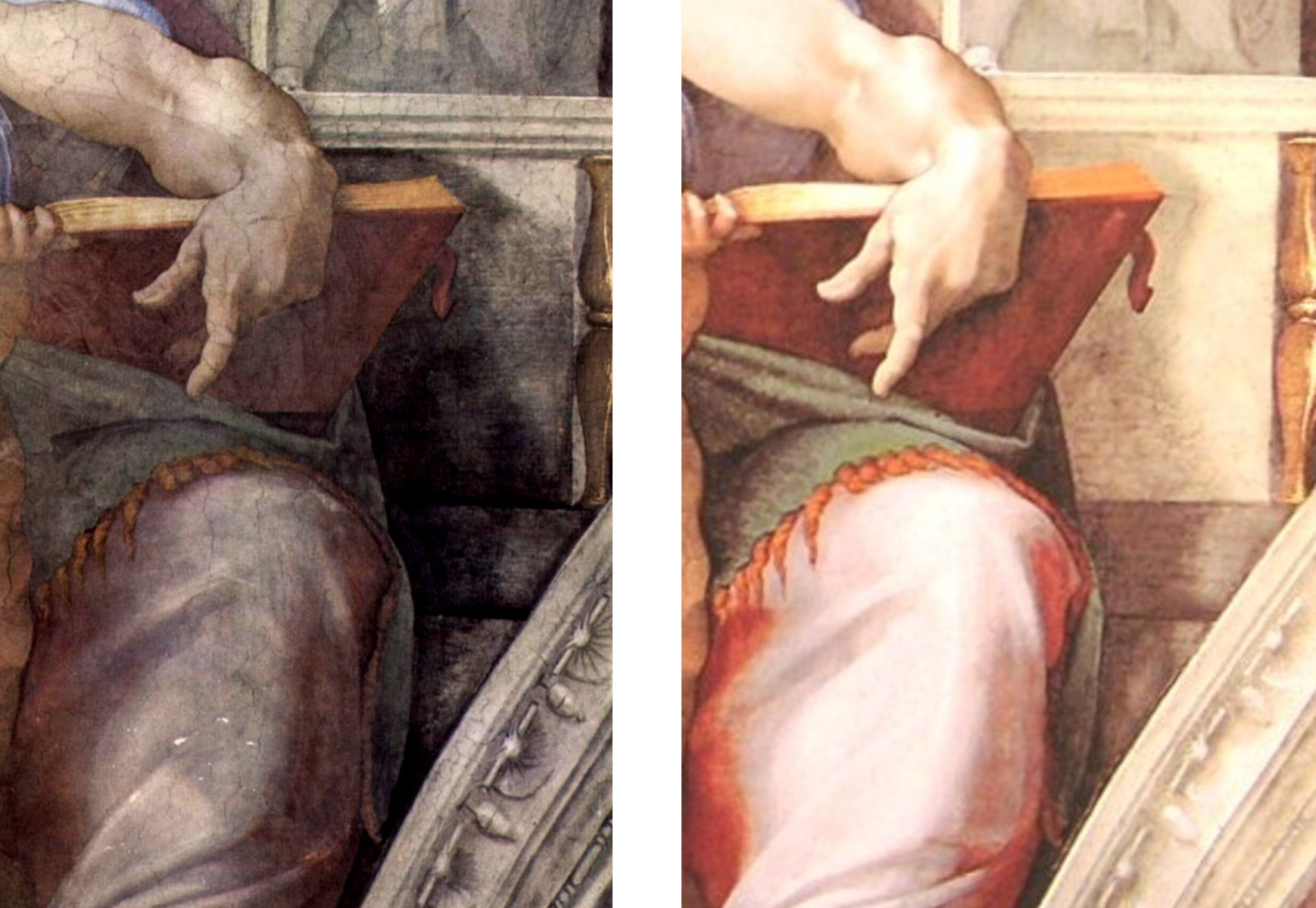 Sistine Chapel Daniel, contrast in shadows